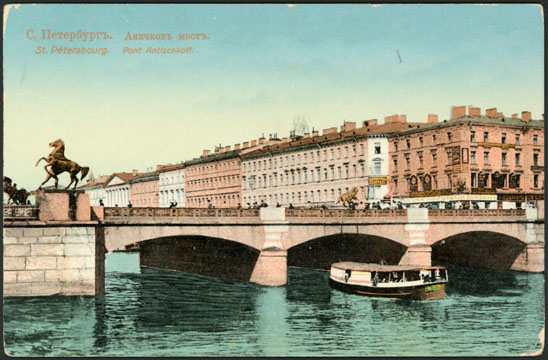 Saint Petersburg (Russia), Anichkov Bridge.